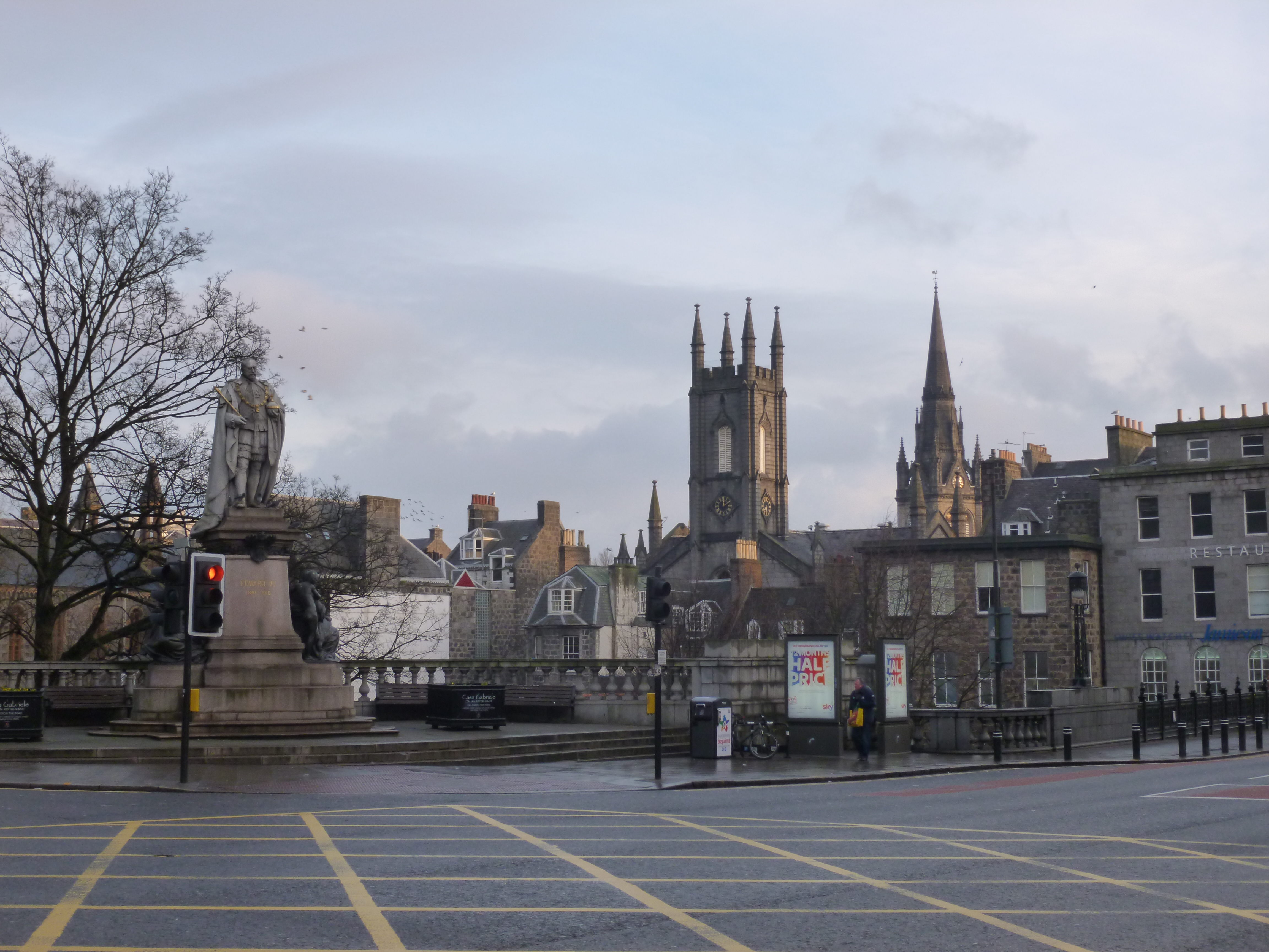 South & St. Nicholas Kirk Spires viewed from Union St